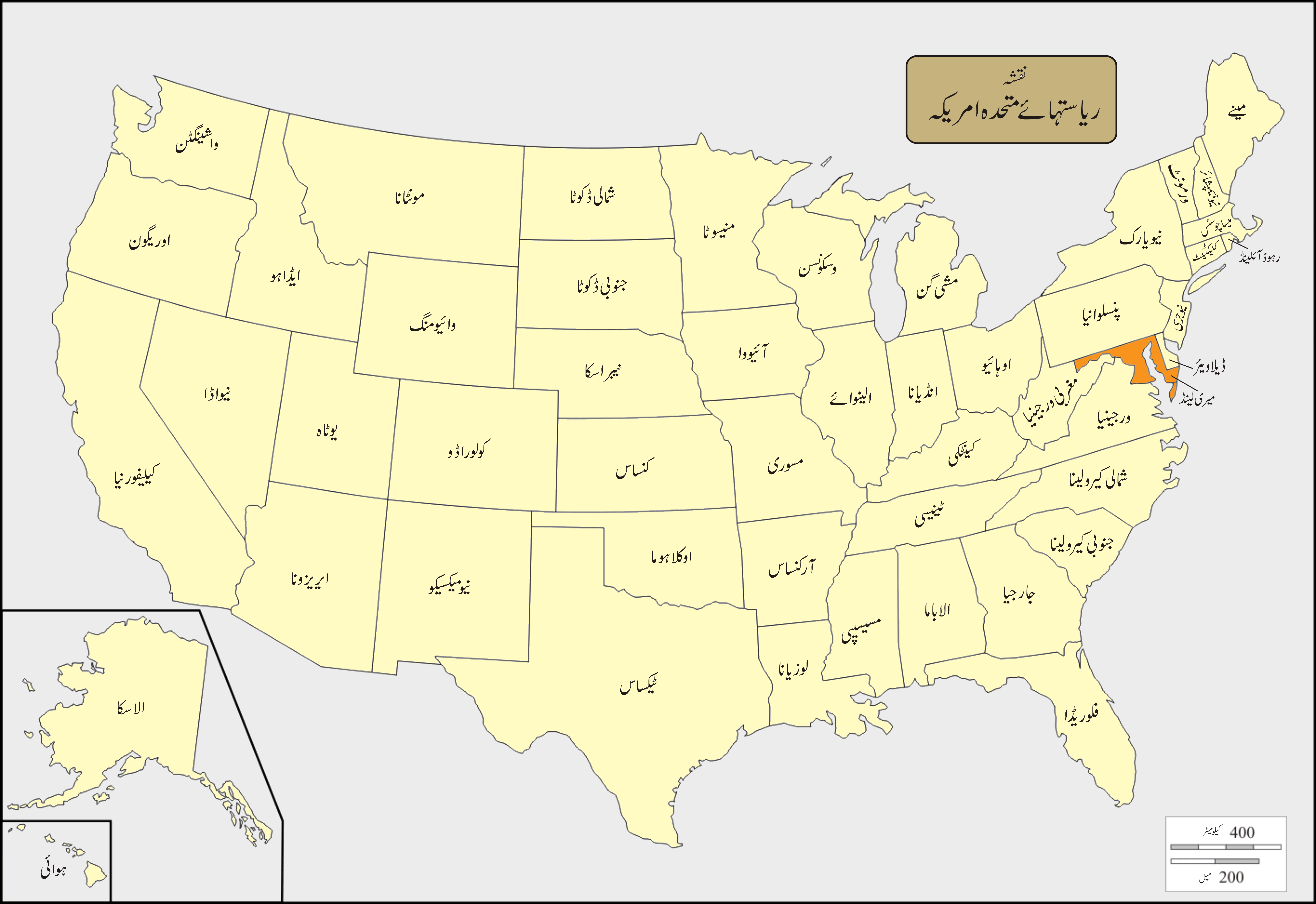 USA Names Maryland